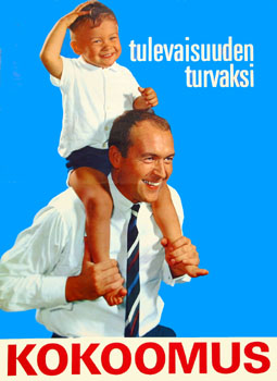 A National Coalition Party poster from 1964 for the Finnish municipal election with "for the security of the future" written in Finnish